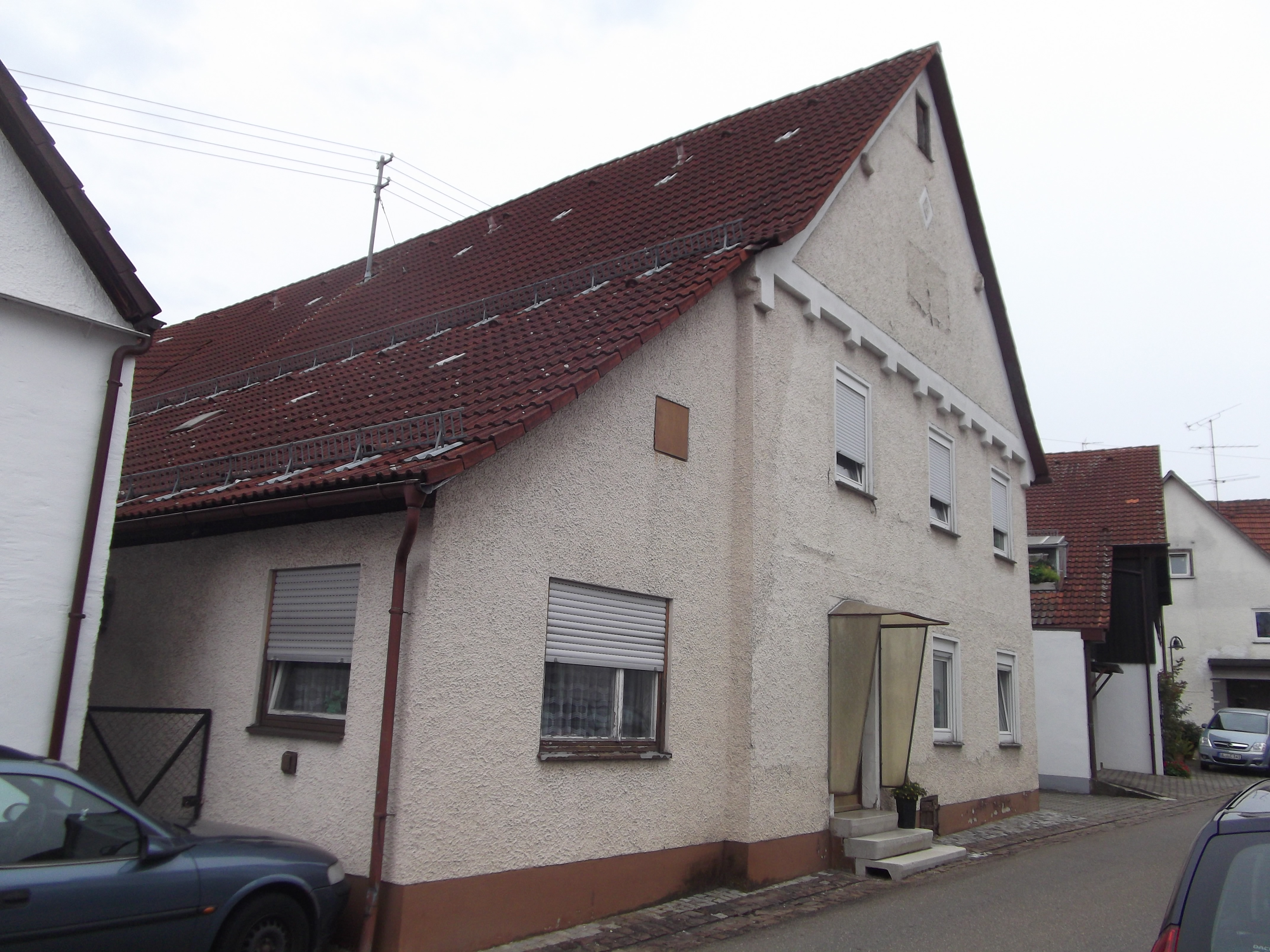 Residential building of the painter family "Wolcker" in Schelklingen in the Bemmelbergergasse 12, approximately built in 1705/10, from the west